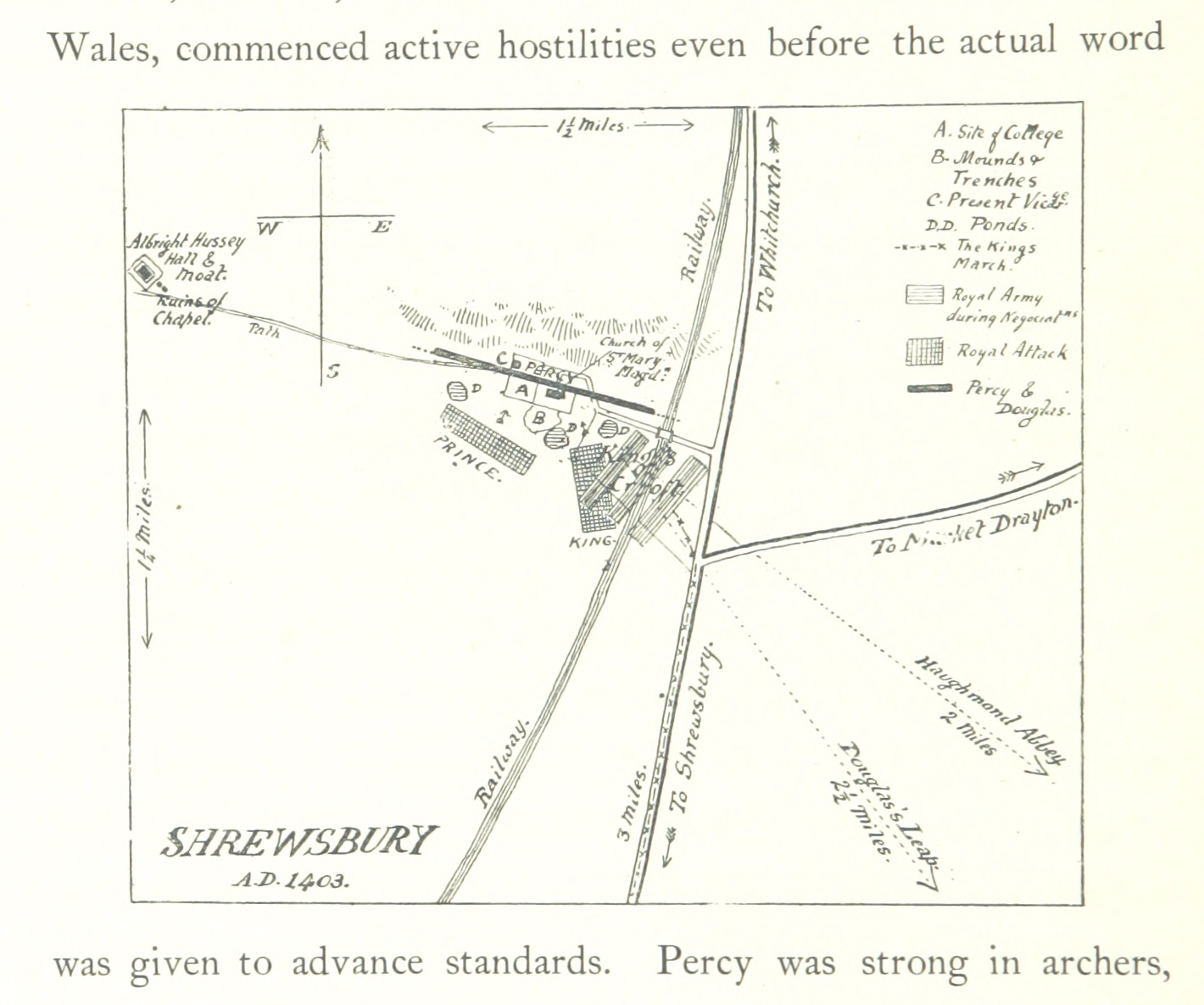 View this map on the BL Georeferencer service. Image taken from: Title: "Battles and Battlefields in England ... Illustrated by the author. With an introduction by H. D. Traill" Author: BARRETT, Charles Raymond Booth. Contributor: TRAILL, Henry Duff. Shelfmark: "British Library HMNTS 9503.ee.19." Page: 140 Place of Publishing: London Date of Publishing: 1896 Publisher: Innes & Co. Issuance: monographic Identifier: 000209253 Explore: Find this item in the British Library catalogue, 'Explore'. Download the PDF for this book (volume: 0) Image found on book scan 140 (NB not necessarily a page number) Download the OCR-derived text for this volume: (plain text) or (json) Click here to see all the illustrations in this book and click here to browse other illustrations published in books in the same year. Order a higher quality version from here.